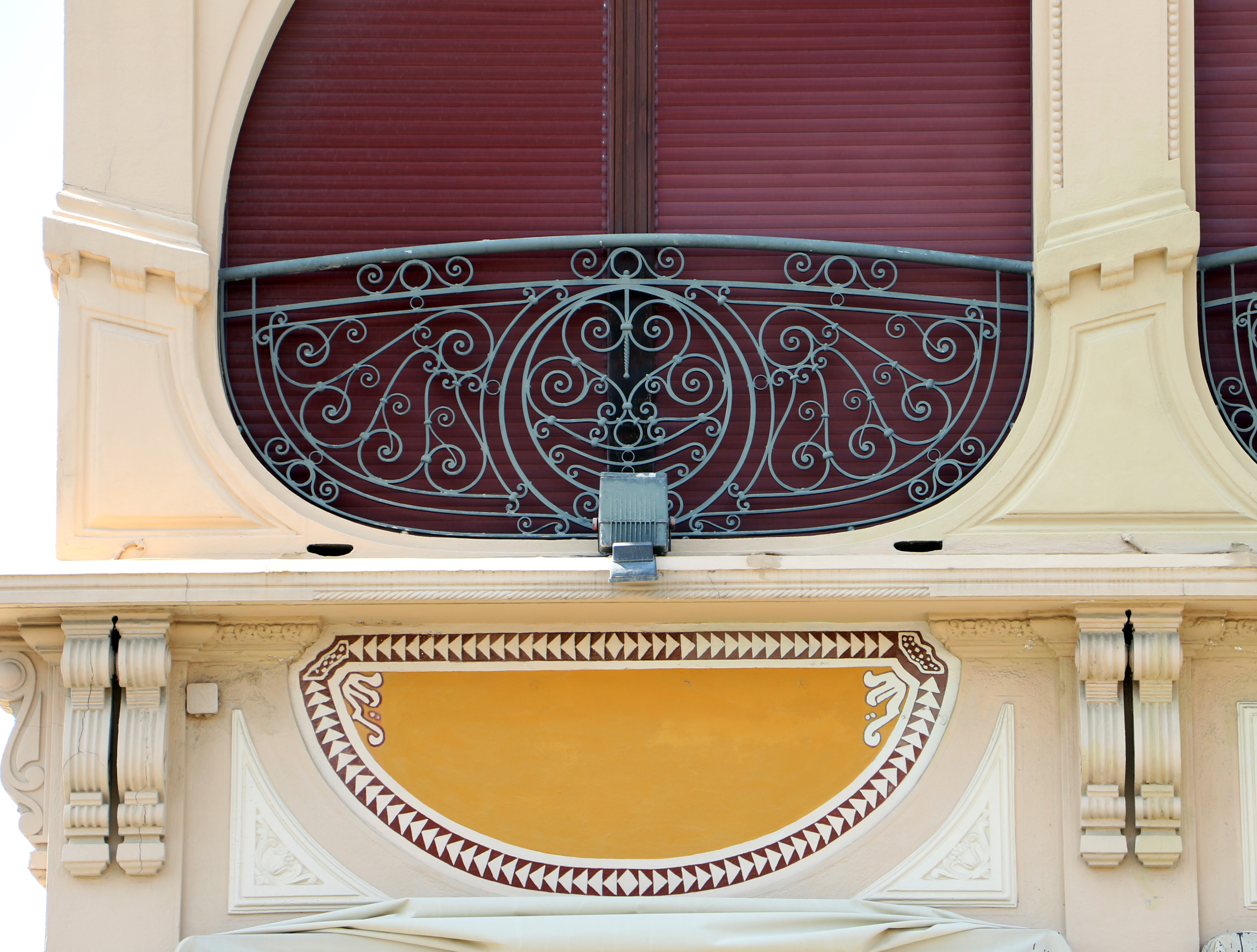 Viareggio